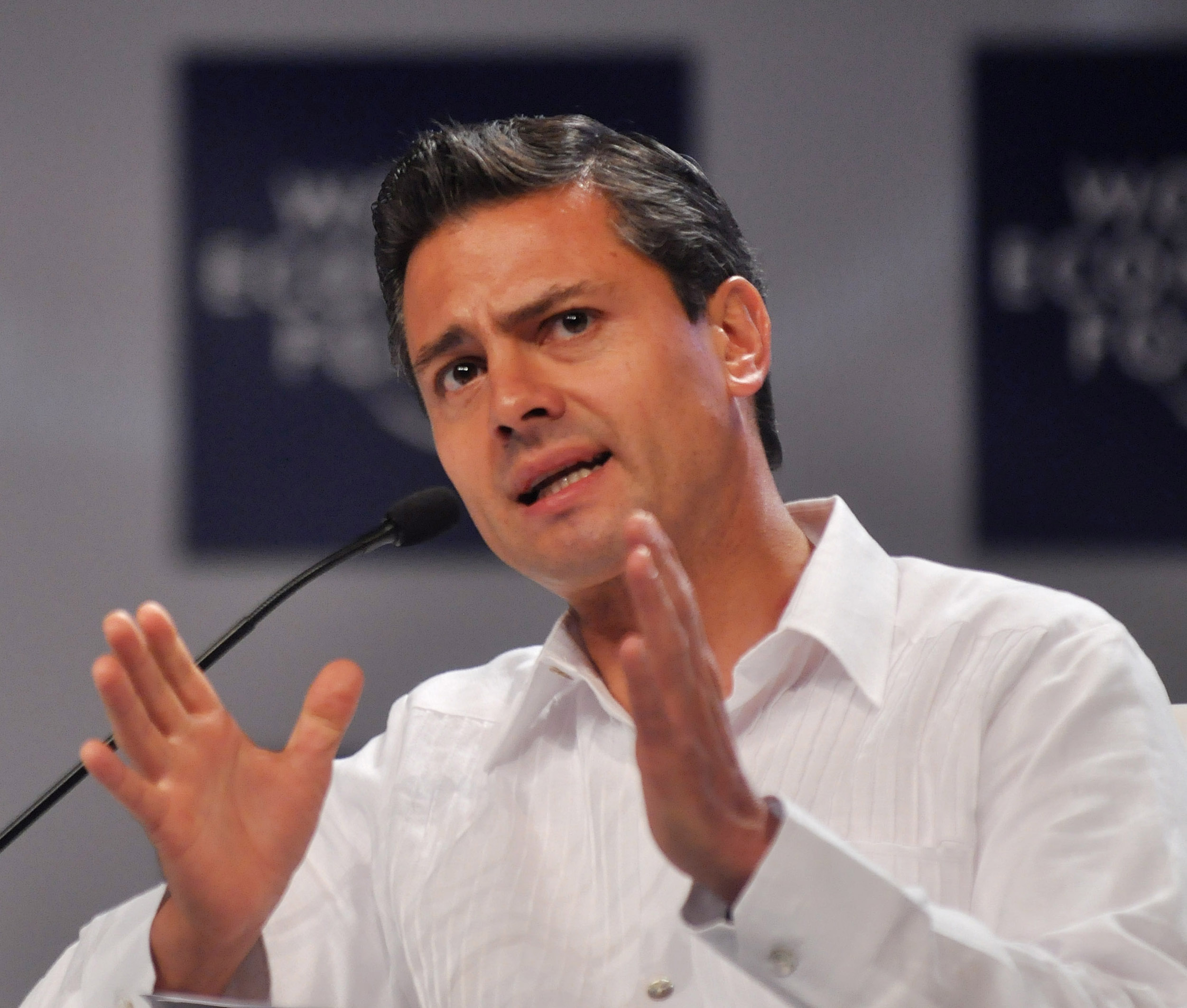 CARTAGENA/COLOMBIA, 7 APRIL 2010 - Enrique Peña Nieto, Governor of the State of Mexico; Young Global Leader in the Opening Plenary at the World Economic Forum on Latin America 2010 in Cartagena Convention Center from 6 - 8 April.